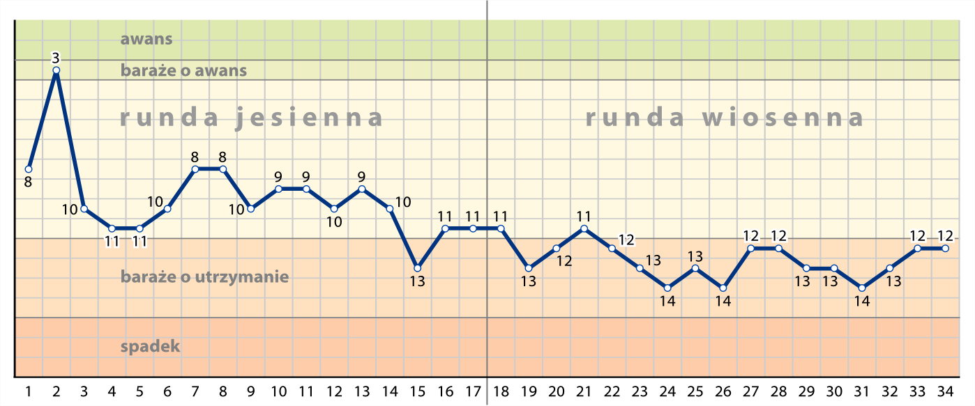 Graph showing performance of HEKO Czermno in 2005–06 Polish Second League season.